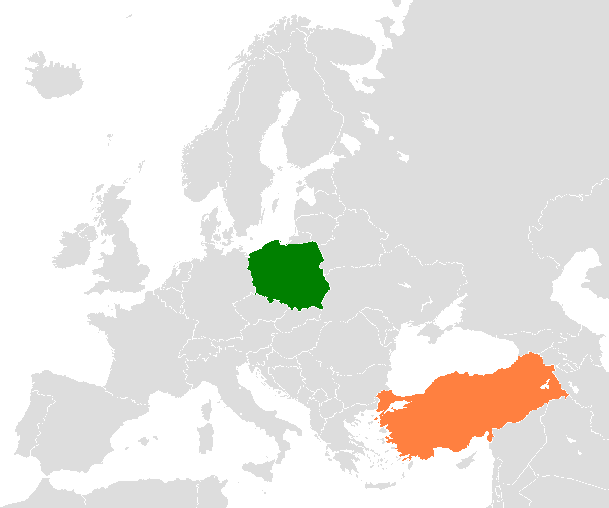 Location of Poland and Turkey